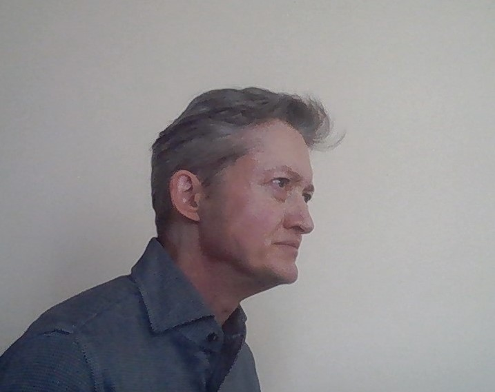 Maxim Februari